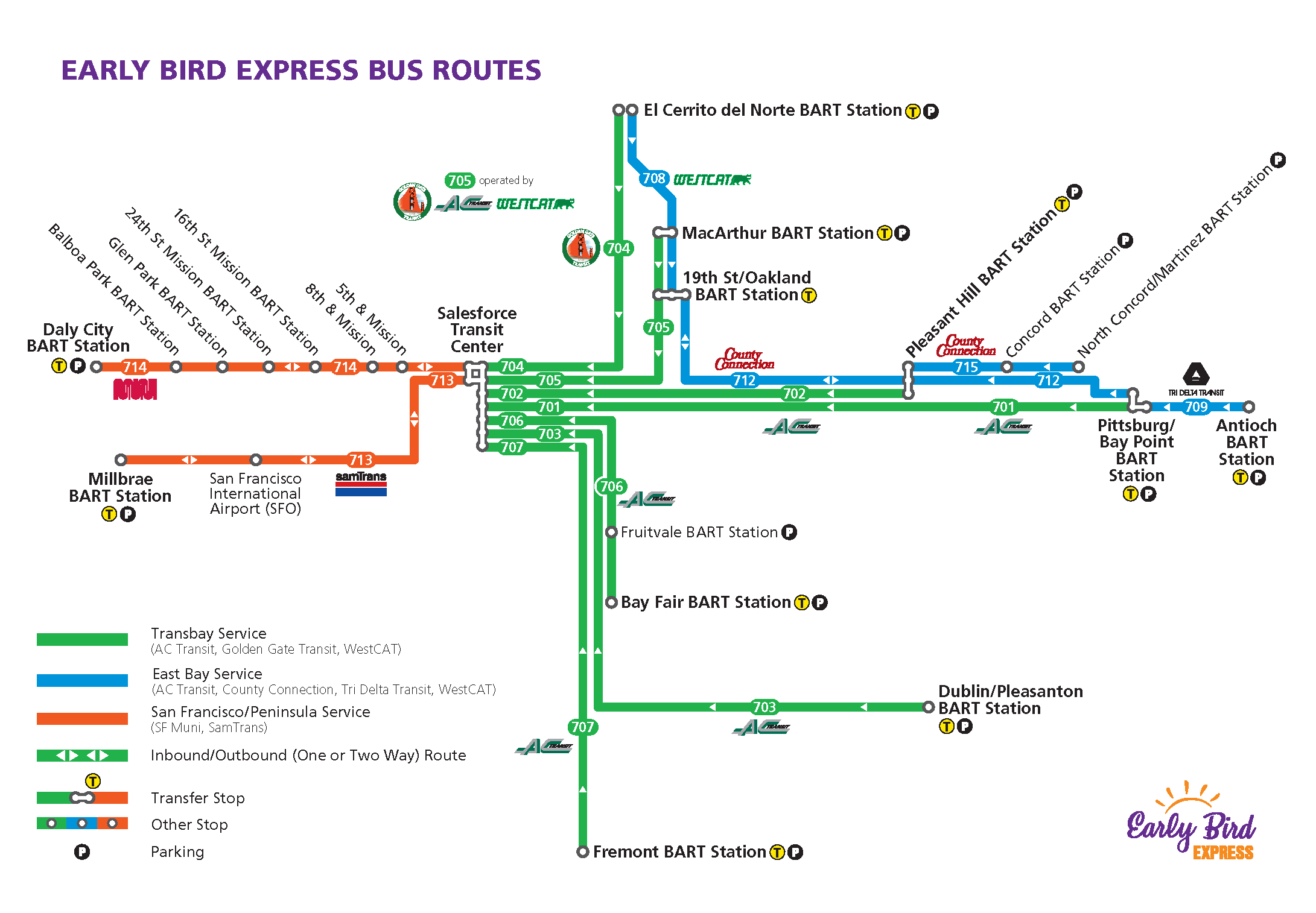 Map of Early Bird Express bus system effective December 16, 2019